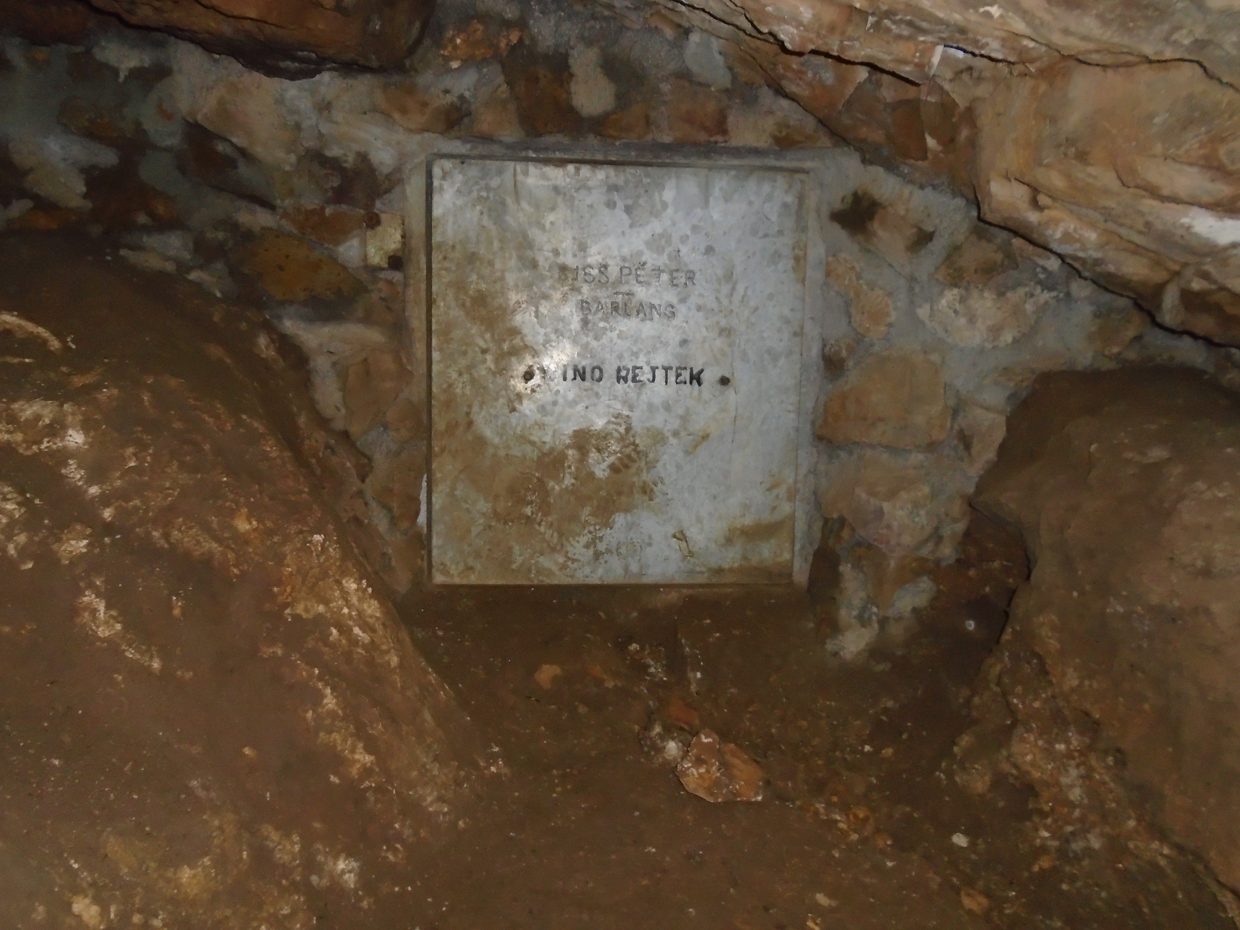 Door in the Dinó Cave.